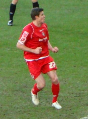 20/02/10 Cardiff V Barnsley, Championship, Cardiff City Stadium, Cardiff, Wales